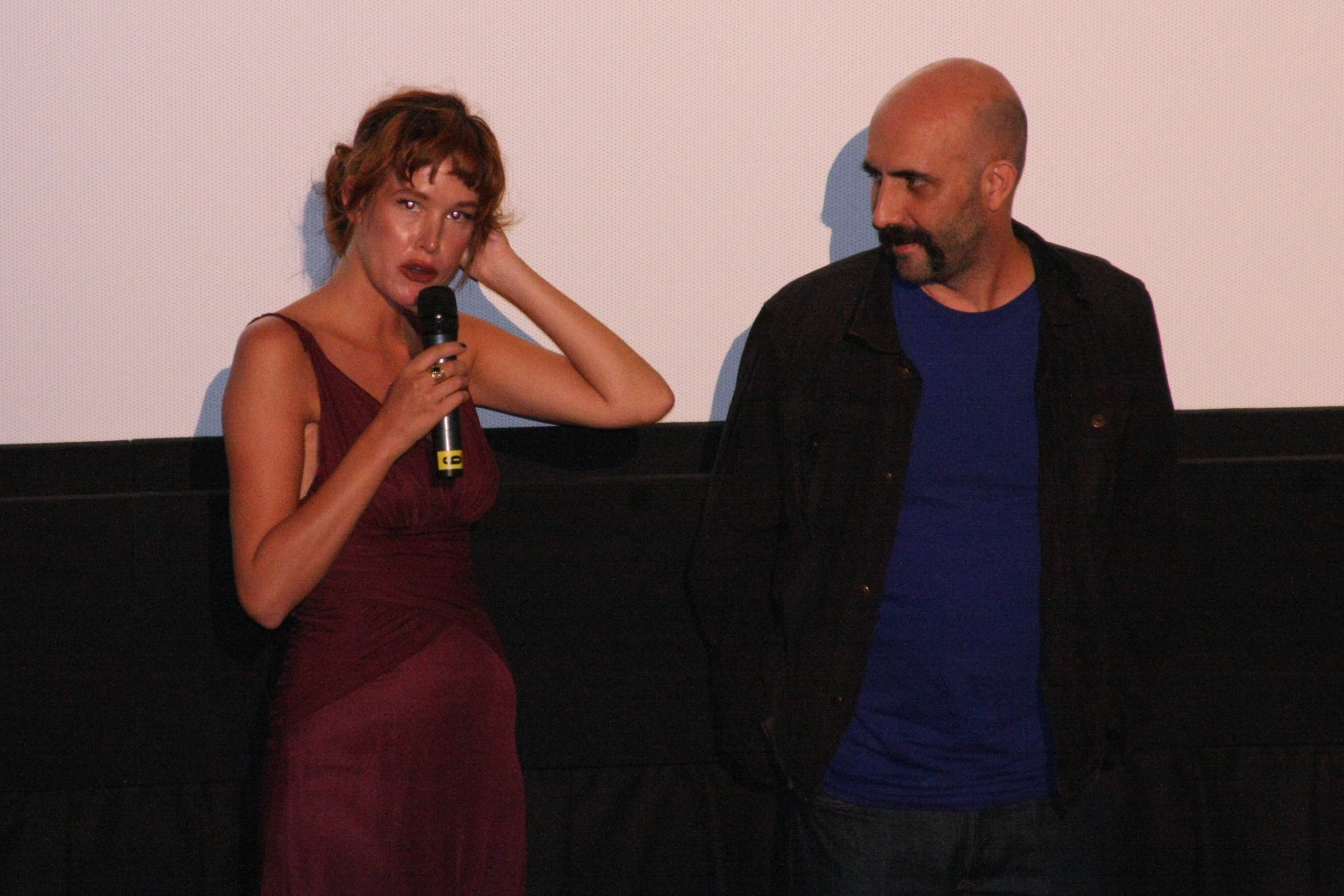 Paz de la Huerta, leading lady in Gaspar Noé's film, Enter the Void.